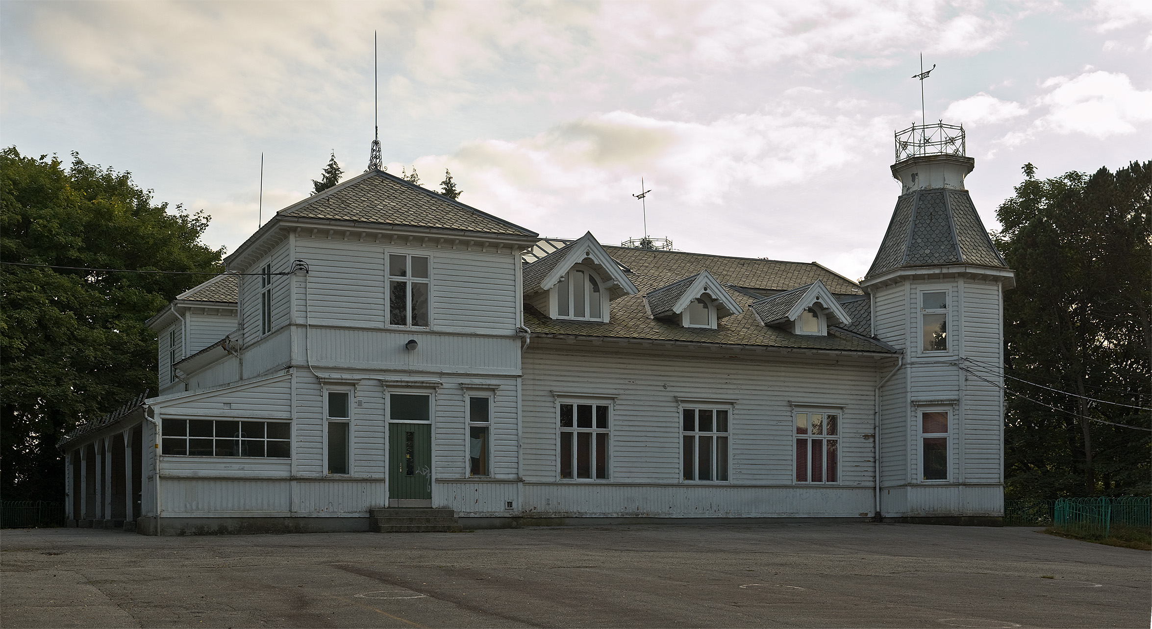 Solhaug skole, a closed-down school, in Bergen, Norway.